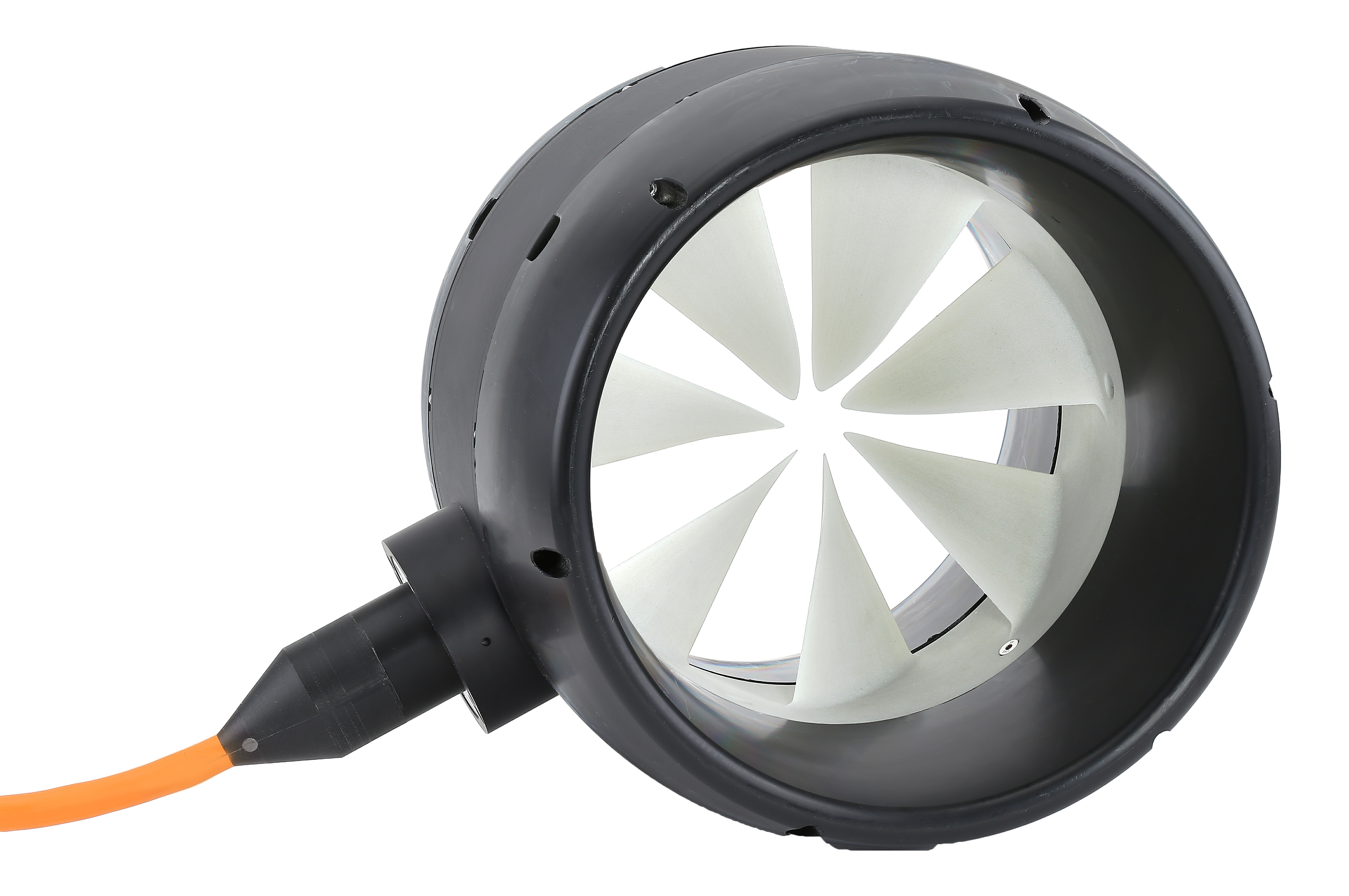 10-15 kW electrical thruster by Copenhagen Subsea for subsea vessels